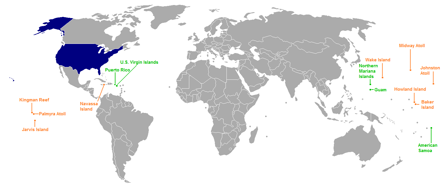 A map of US territories, color coded depending on whether or not. The fifty states and DC are colored blue, inhabited territories are colored green, and uninhabited territories are colored orange.